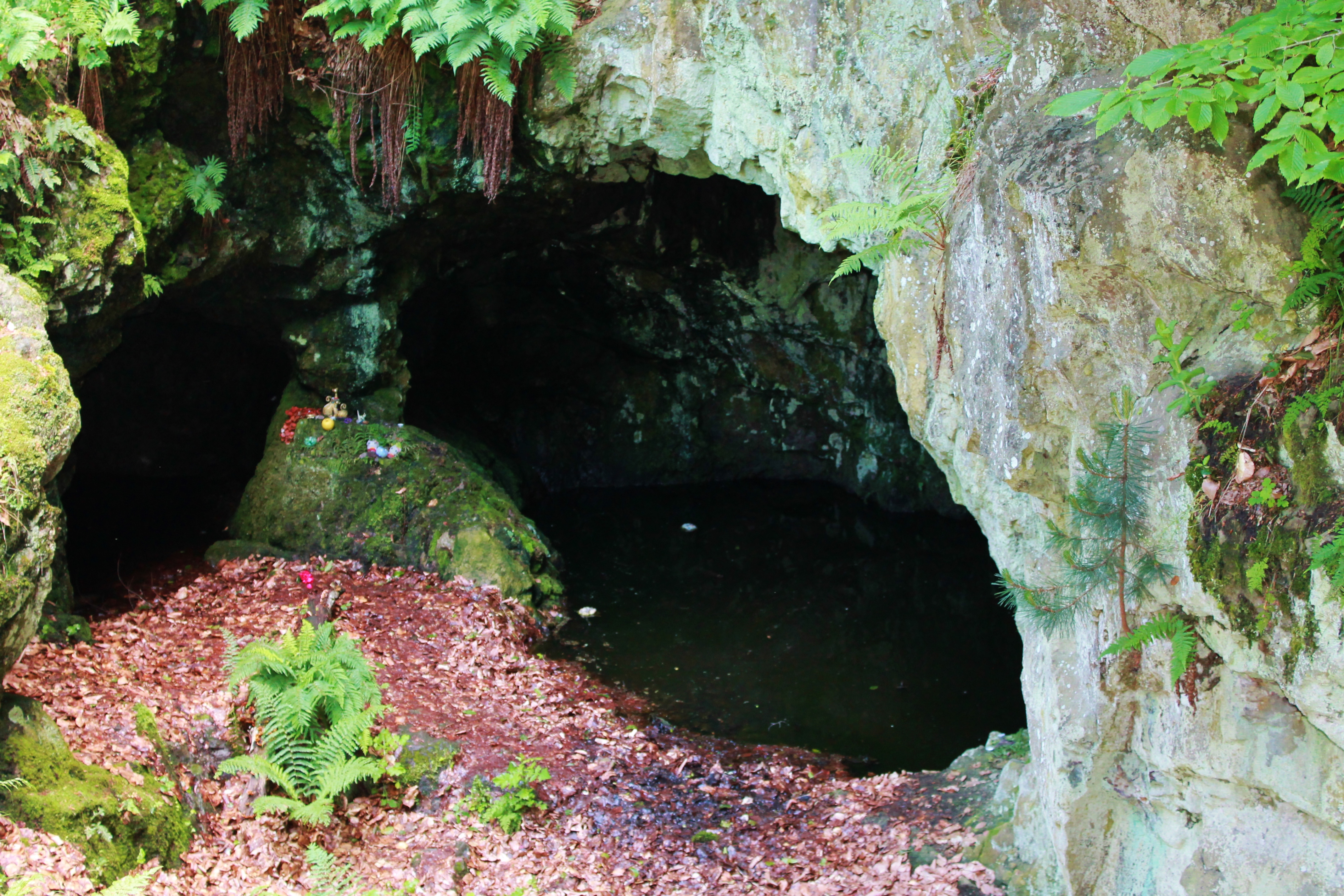 Bastets Tomb Entrance Strandzha Bulgaria